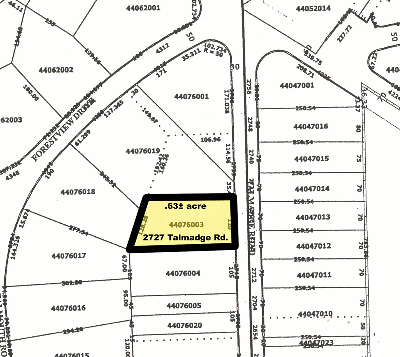 Example for a plat.